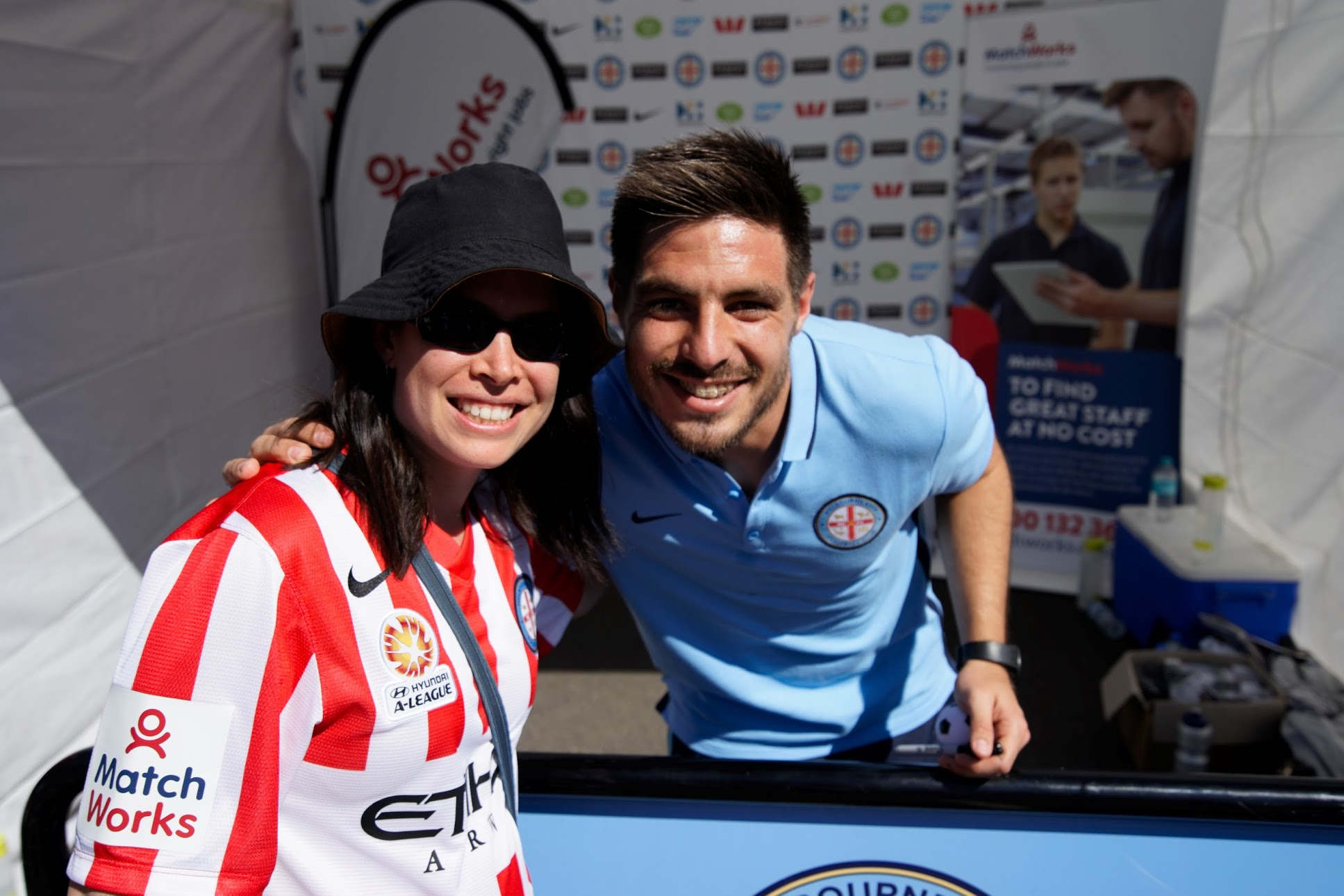 Fornaroli with a fan at Melbourne City's Family Day in 2015